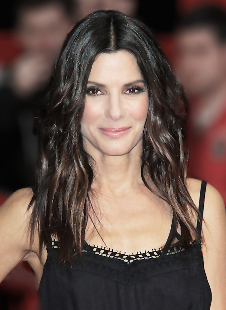 American actress Sandra Bullock at the UK film gala screening of The Heat, Curzon Mayfair Cinema, London, England on 13 June 2013.